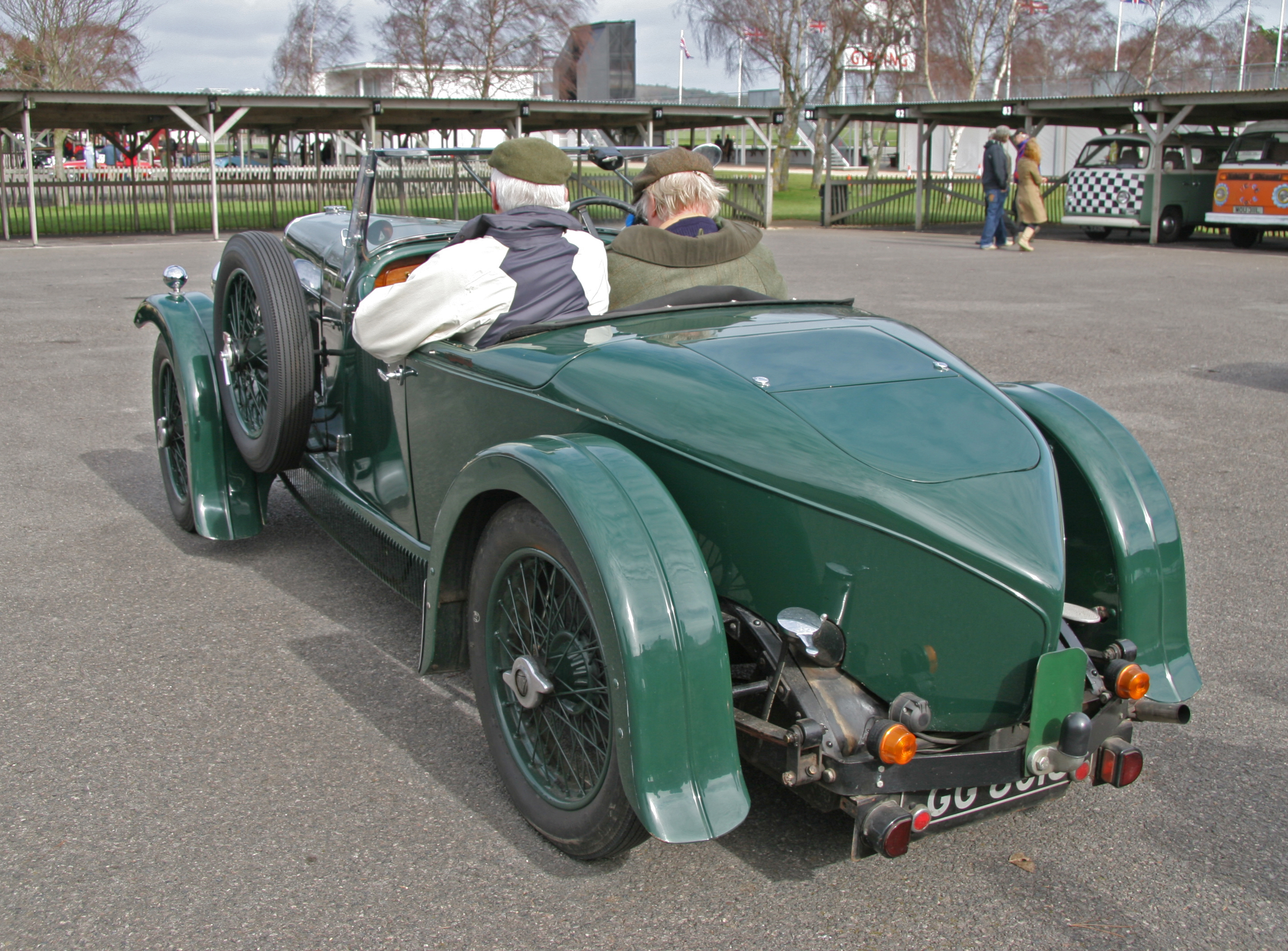 Alvis 12/60 (DVLA) first registered 8 September 1932, 1645cc